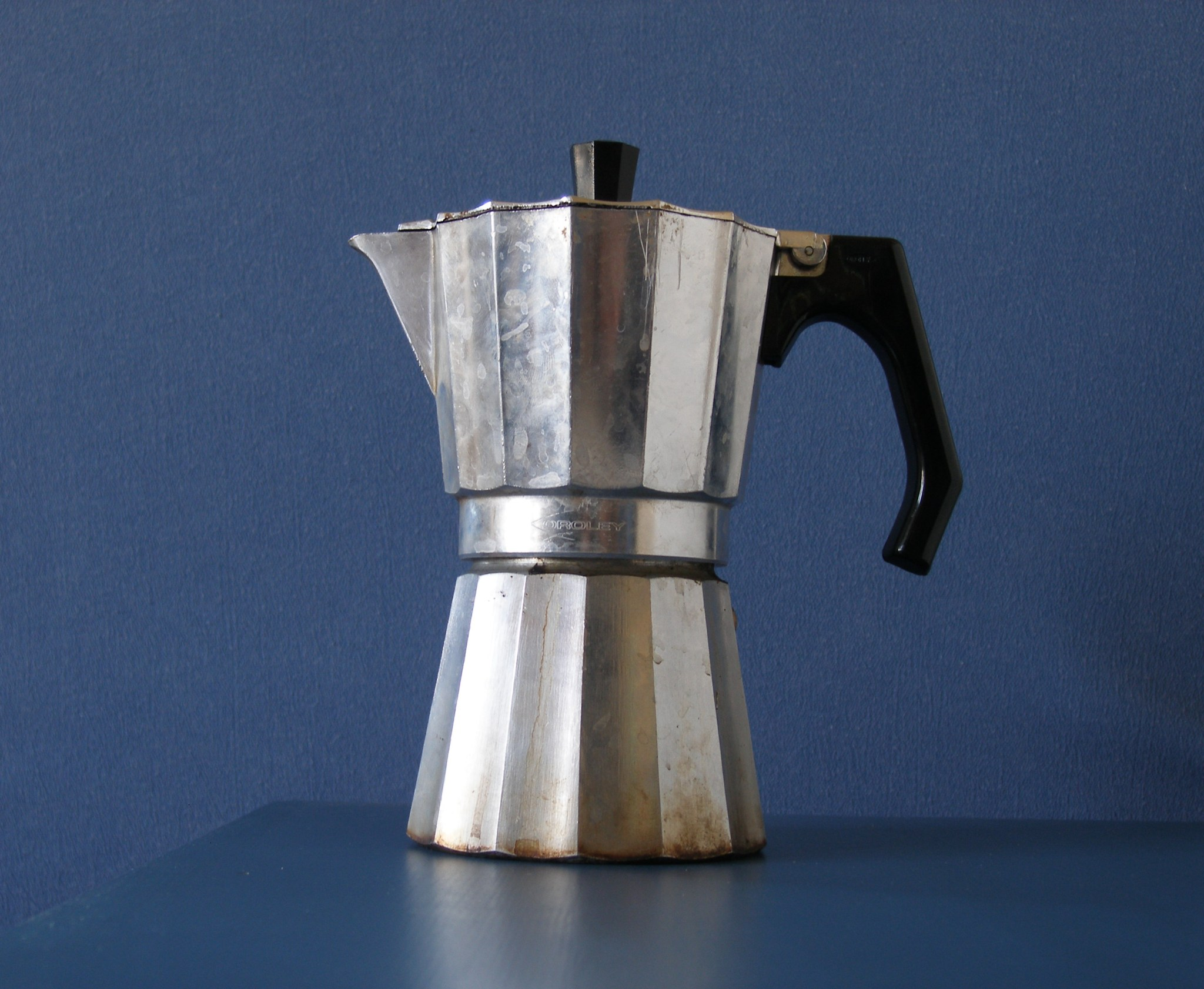 Moka coffee machine